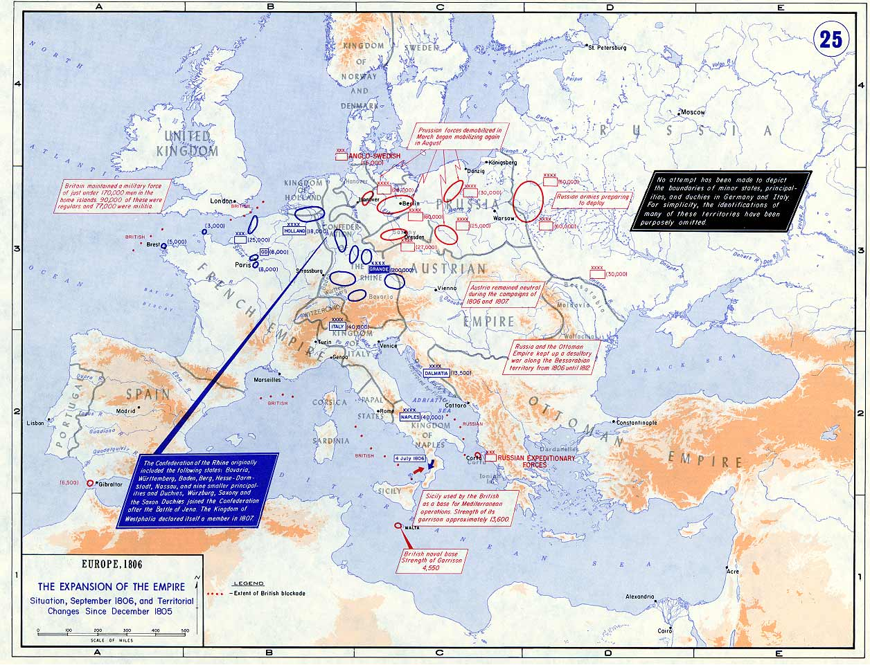 Strategic Situation of Europe, 1806